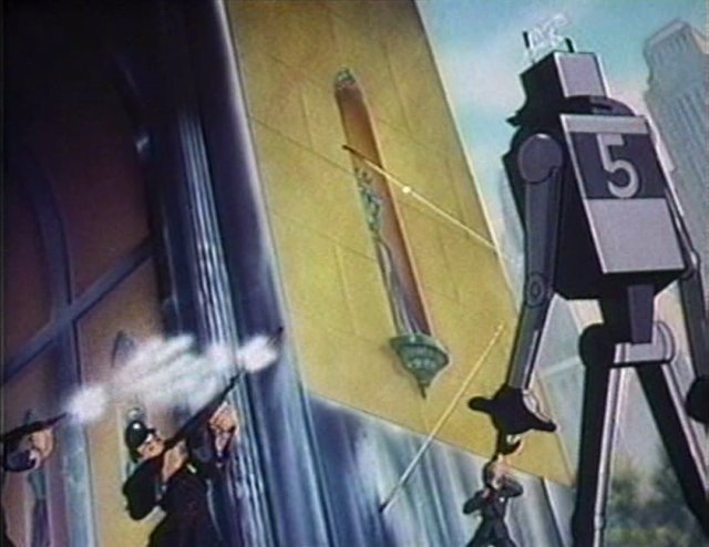 Still image from Superman: The Mechanical Monsters (1941), a Fleischer Brothers Superman cartoon.